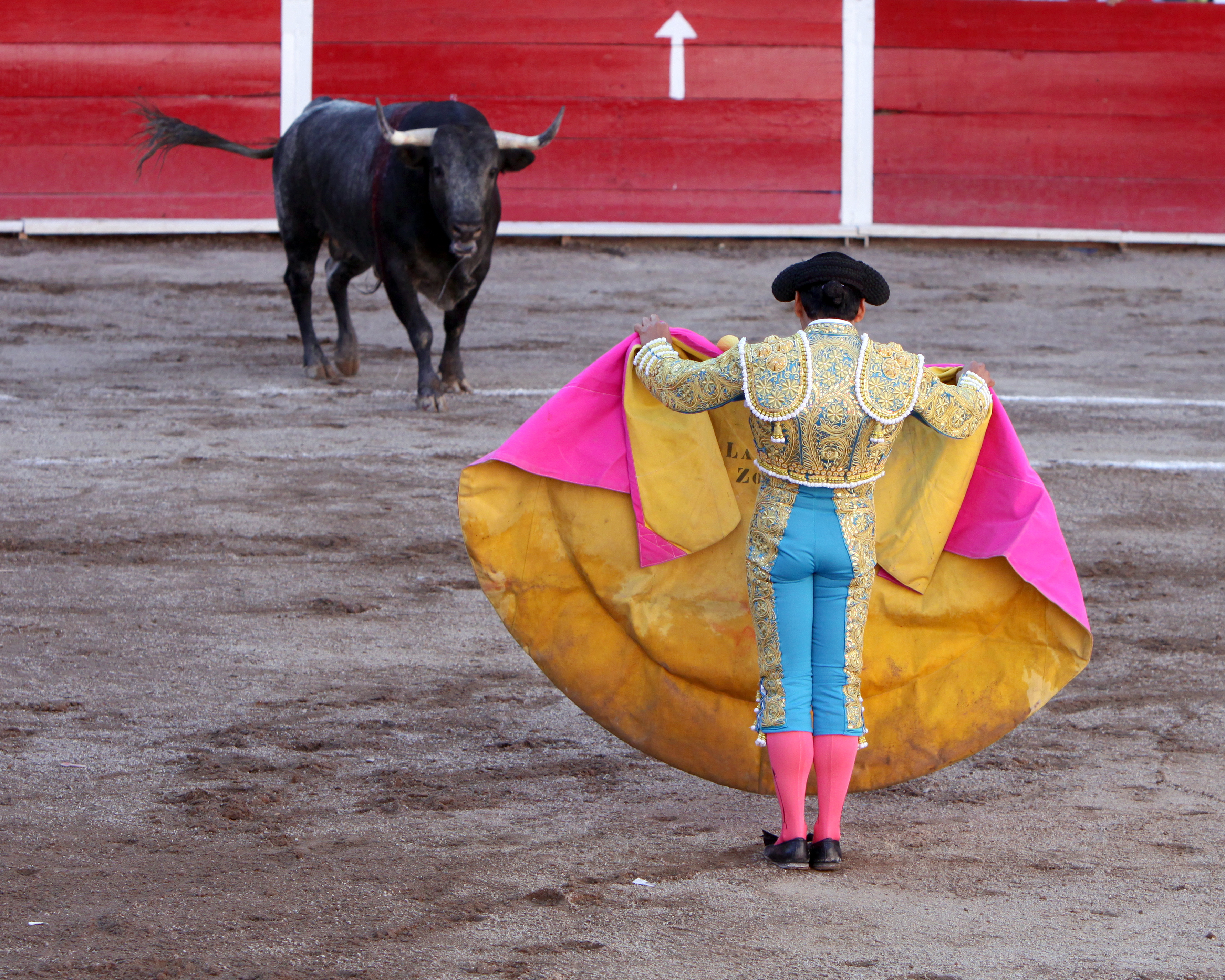 Bullfight at San Marcos Fair, Aguascalientes, Mexico, May 1, 2010.